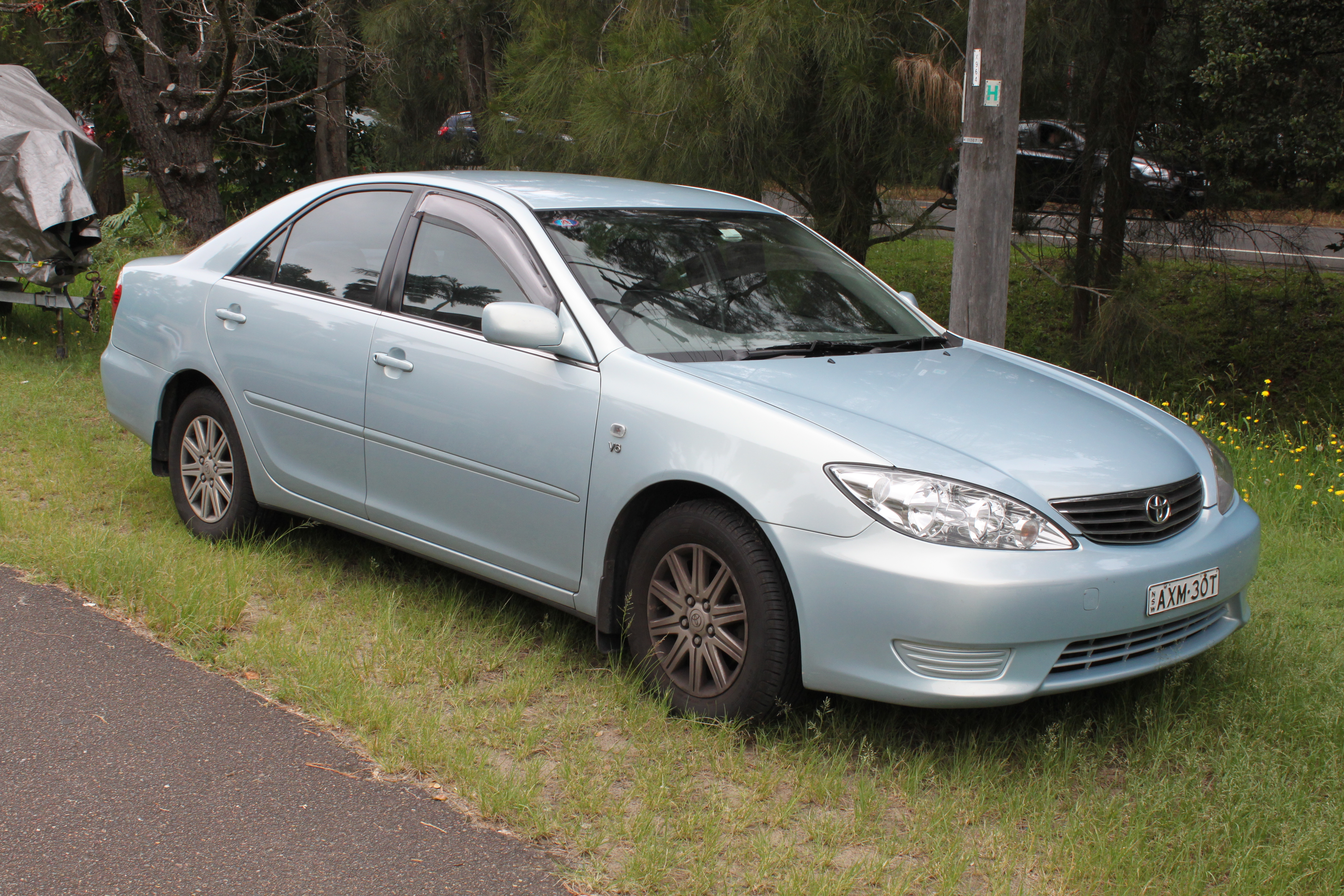 Toyota Camry MCV36R Ateva